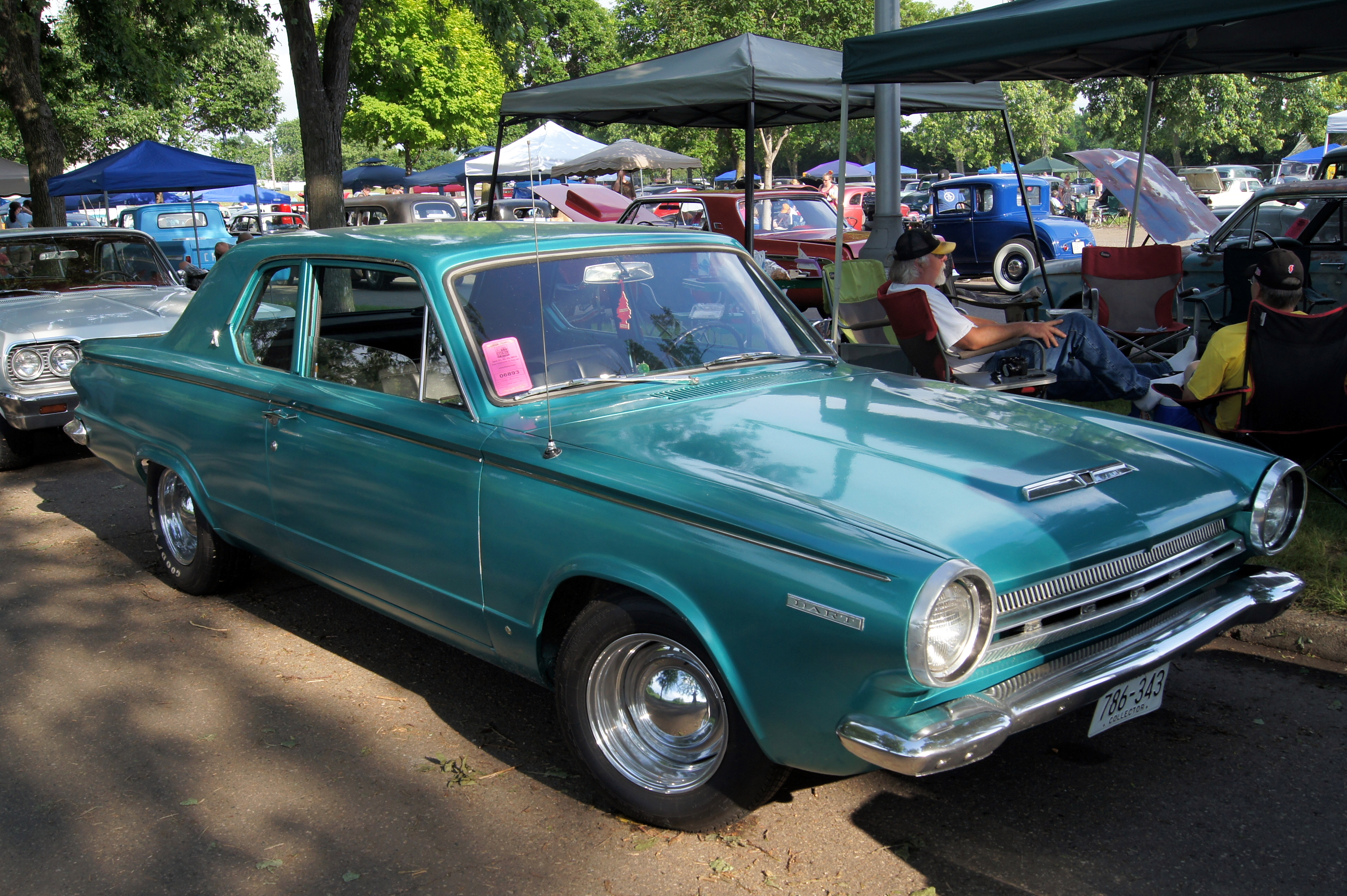 MSRA “BACK TO THE 50′s” 40th ANNIVERSARY June 21-23, 2013 State Fairgrounds St. Paul Minnesota More Car Pictures